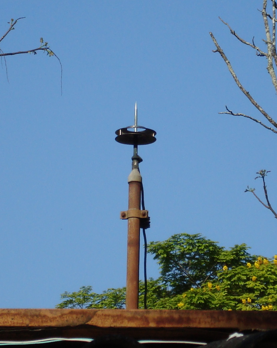 Radioactive lightning rod